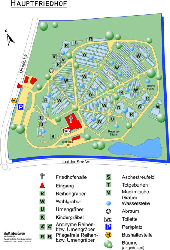 Map of the General Cemetery (Hauptfriedhof) of Ibbenbüren, Kreis Steinfurt, North Rhine-Westphalia, Germany.